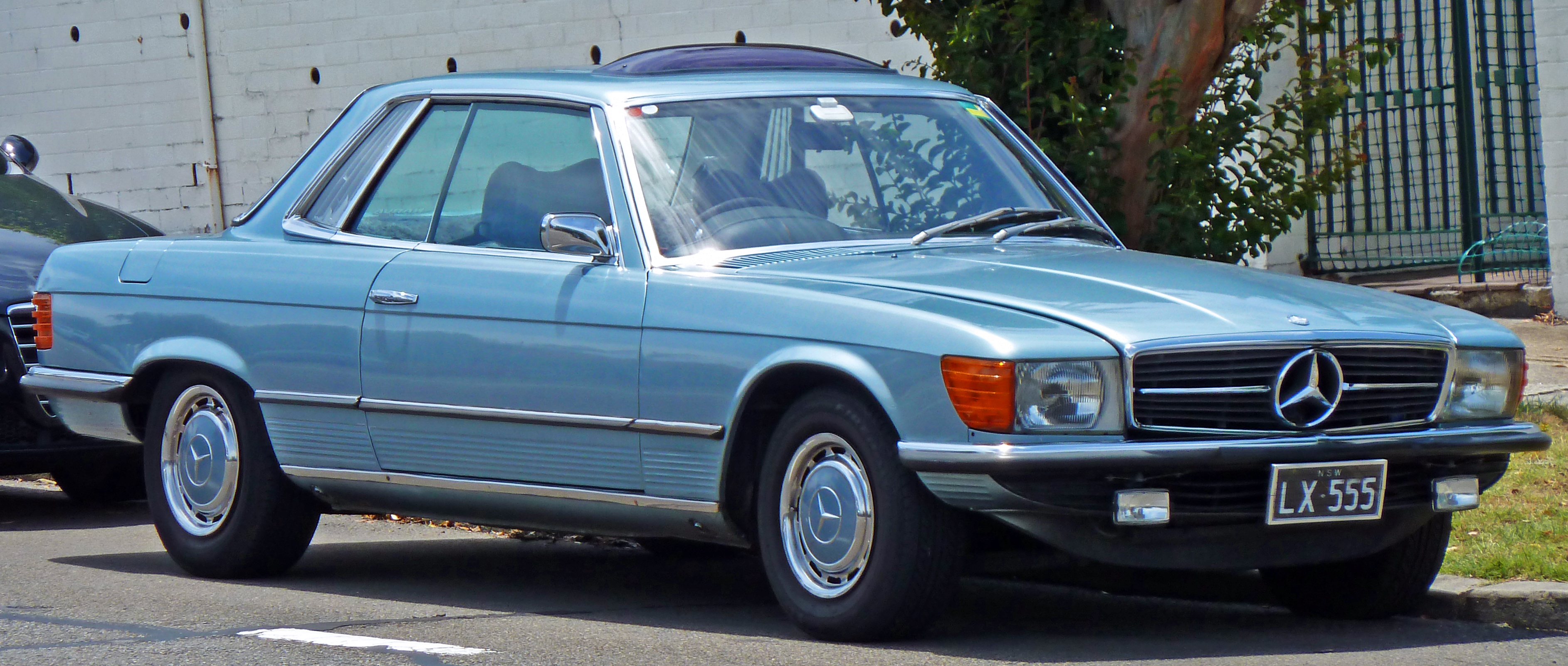 1971–1976 Mercedes-Benz 350 SLC (C107) coupe. Photographed in Rose Bay, New South Wales, Australia.